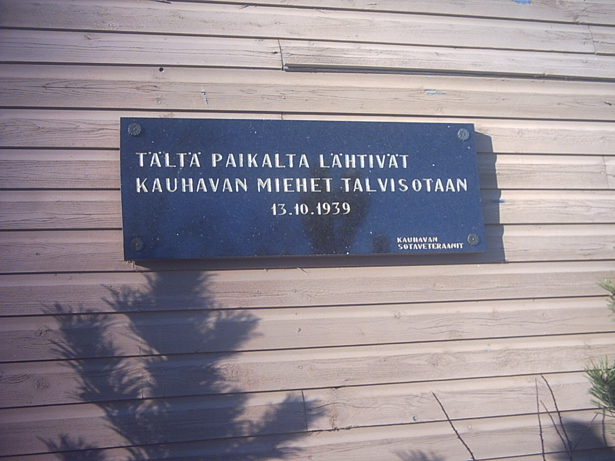 Memorial plaque of Winter War in Kosola, Kauhava, Finland.